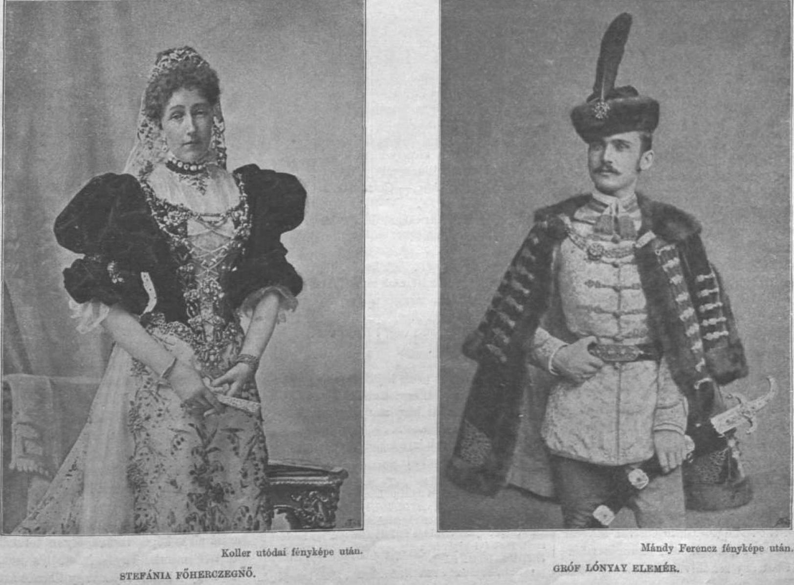 Elemér Lónyay (circa 1896) and Princess Stéphanie of Belgium